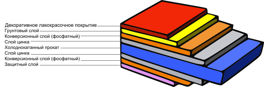 Cladmetal